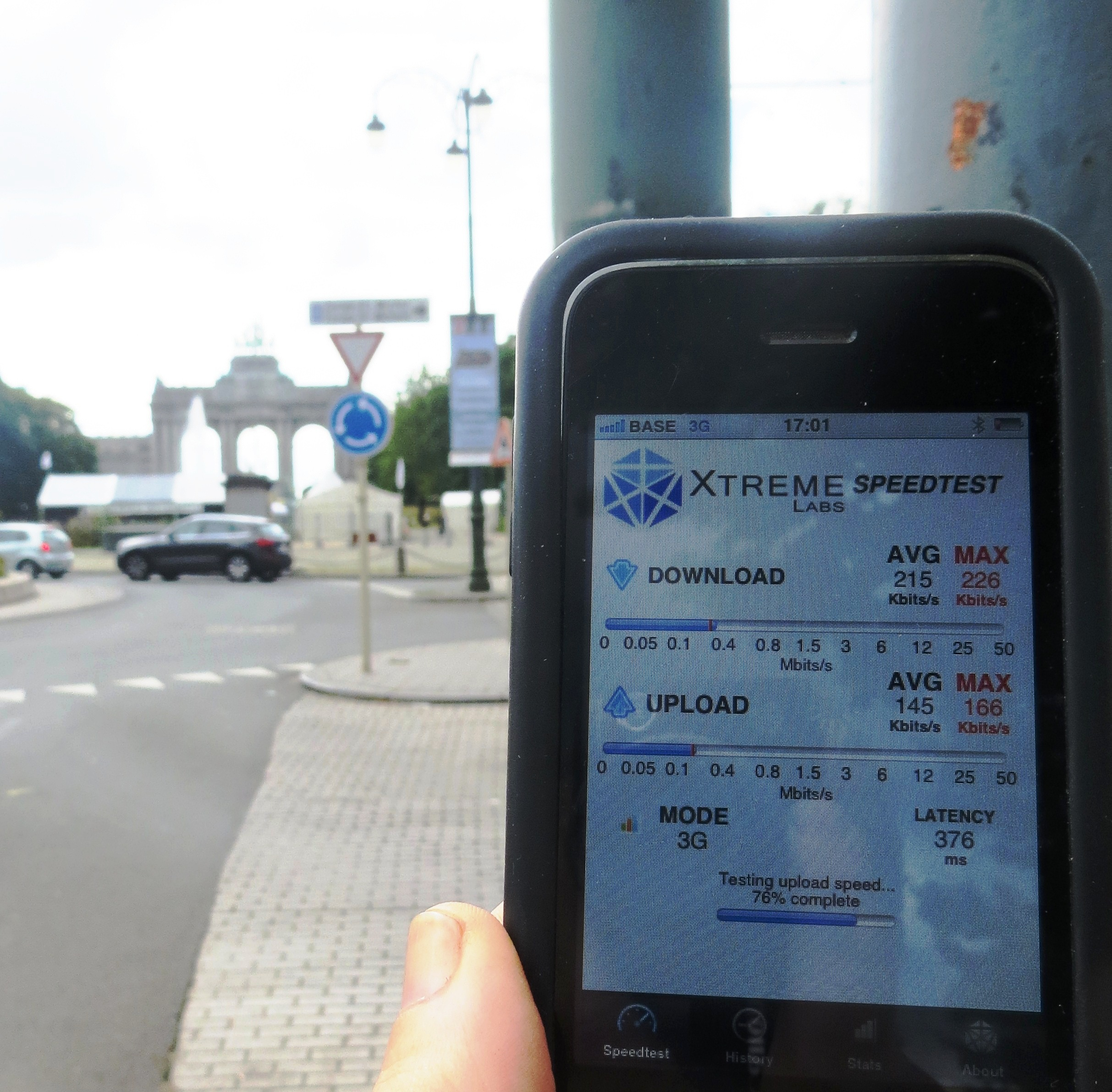 3G mobile data network speed test in downtown Brussels, september 2012. After 2 years of bans on new mobile basestations, the mobile network download speed is down at 0.25 Mb/sec.